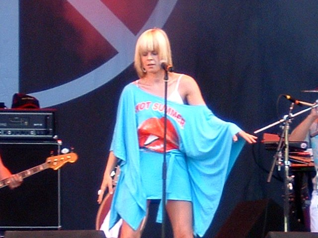 Swedish vocalist Robyn (Robin Carlsson), at Gatufesten in Sundsvall, Sweden